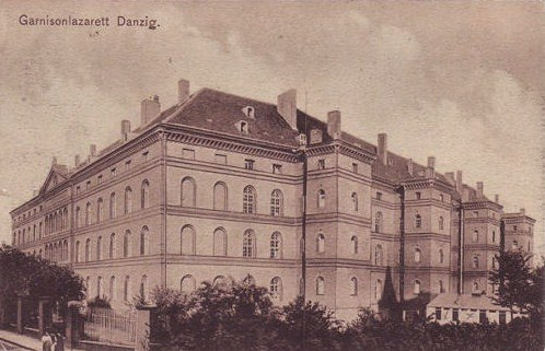 Former military hospital, Gdańsk (Poland).